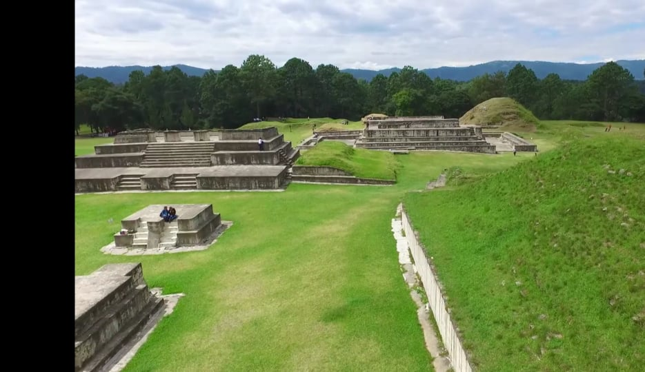 medio dia en zaculeu